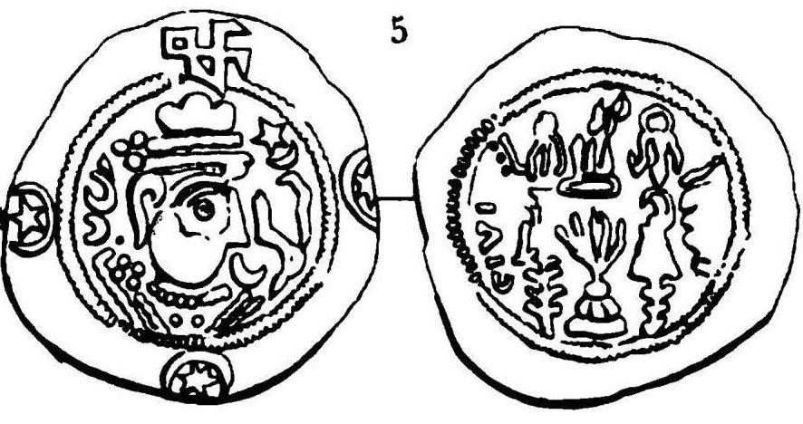 Coin of Guaram I of Iberia, c. 590